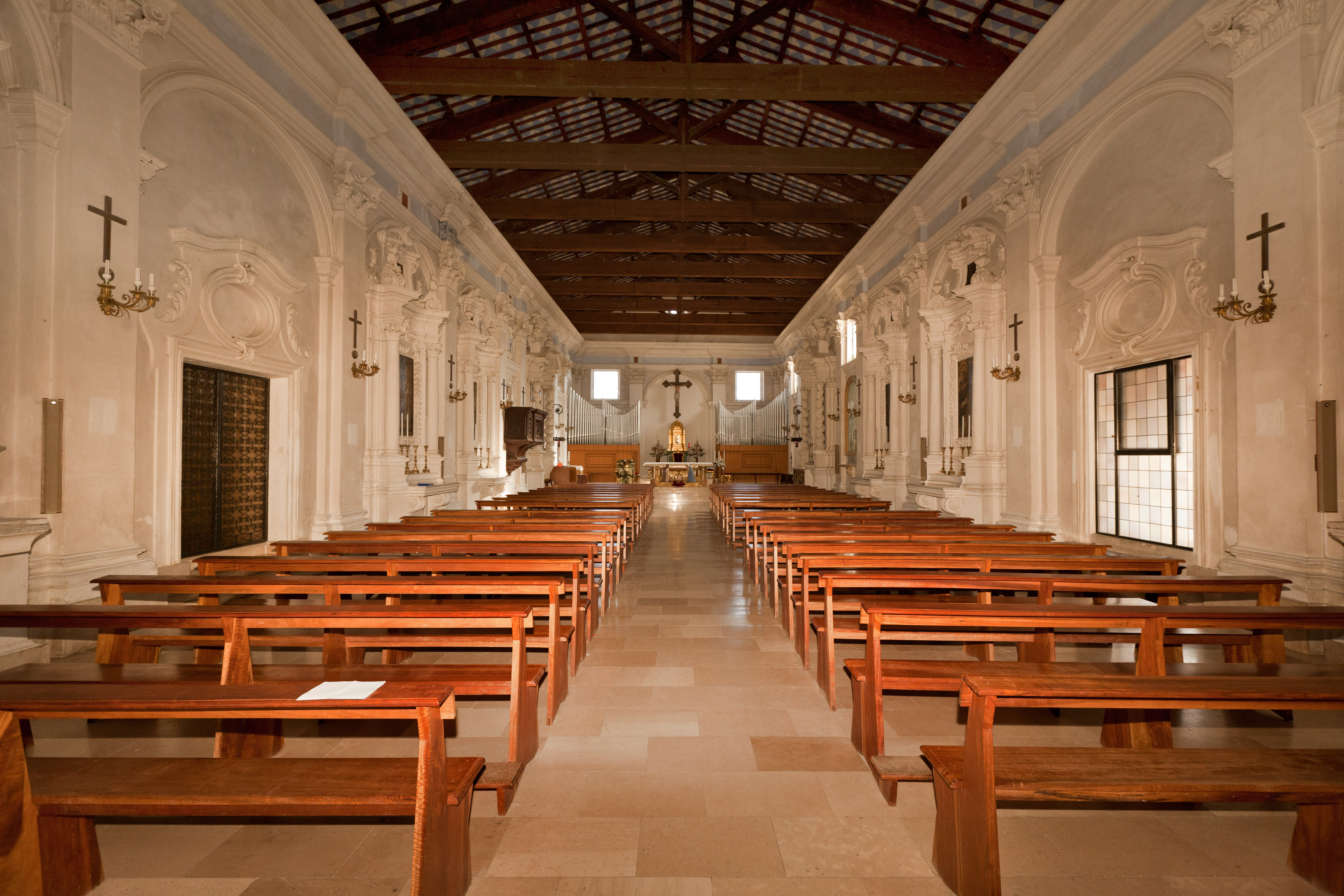 Baroque interior of the Santa Maria Maggiore church, Guardiagrele, IT